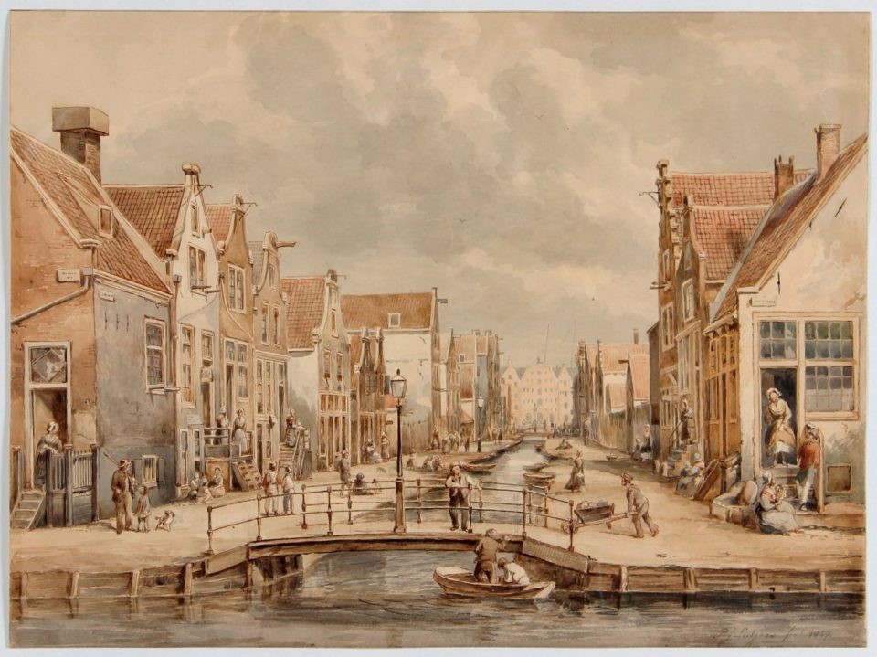 Goudsbloemgracht seen from the Lijnbaansgracht to the Brouwersgracht. Sepia drawing by Goudsbloemgracht (1808-1874) , signed lower right “ PJ Lutgers fec. 1857 ". Dim. 26.6 x 36.1 cm.